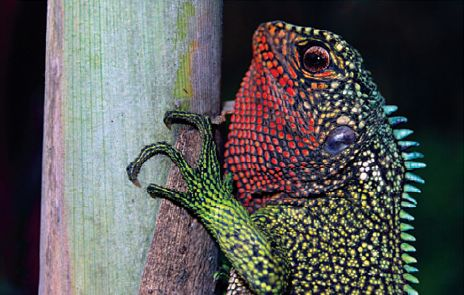 Head of the Enyalioides rubrigularis male (QCAZ 8460).